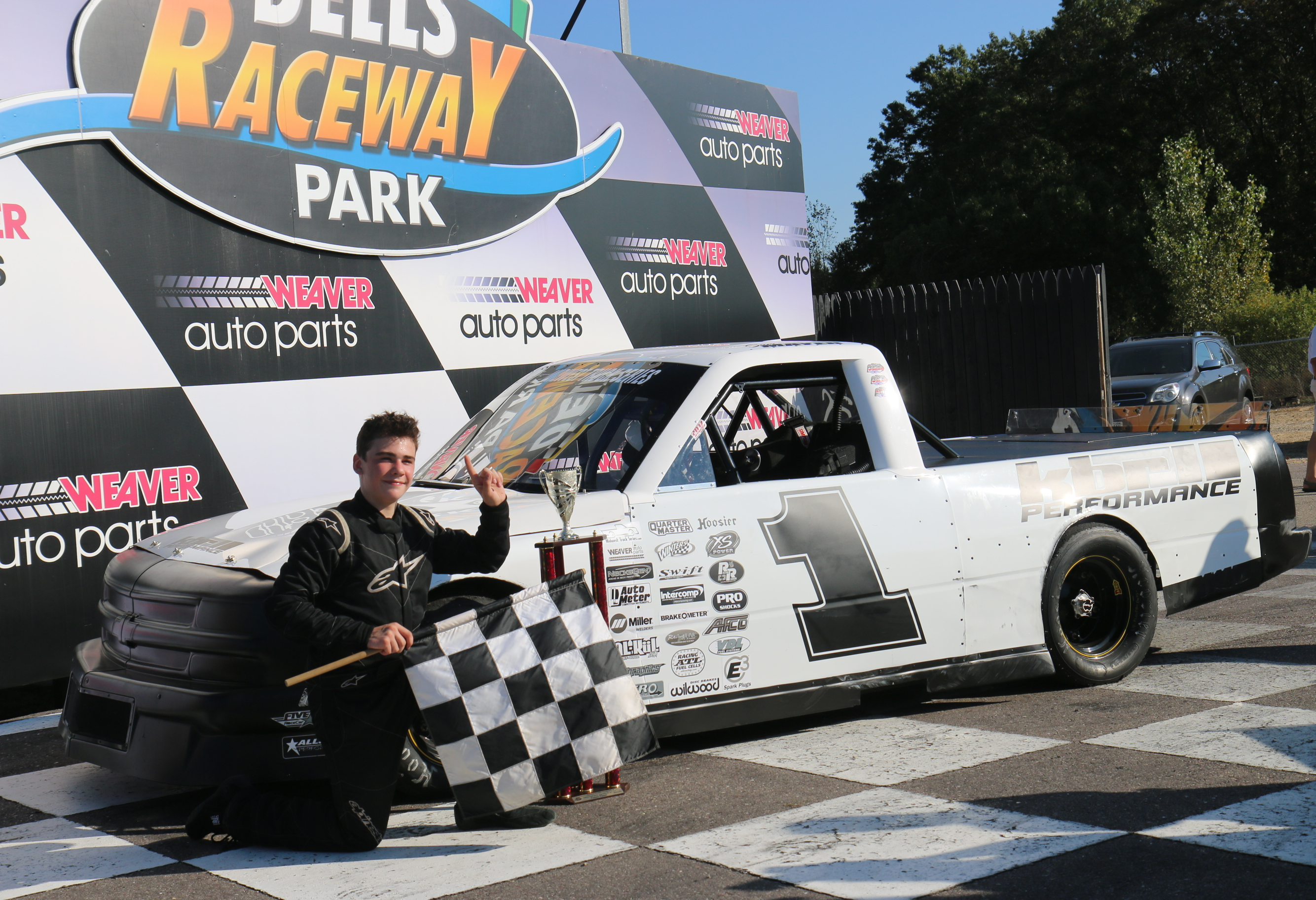 Sam Mayer in victory lane after winning the Midwest Truck Series race at Dells Raceway Park. The announcer asked what his background was and where he raced. The teen answered that he had been racing karts.